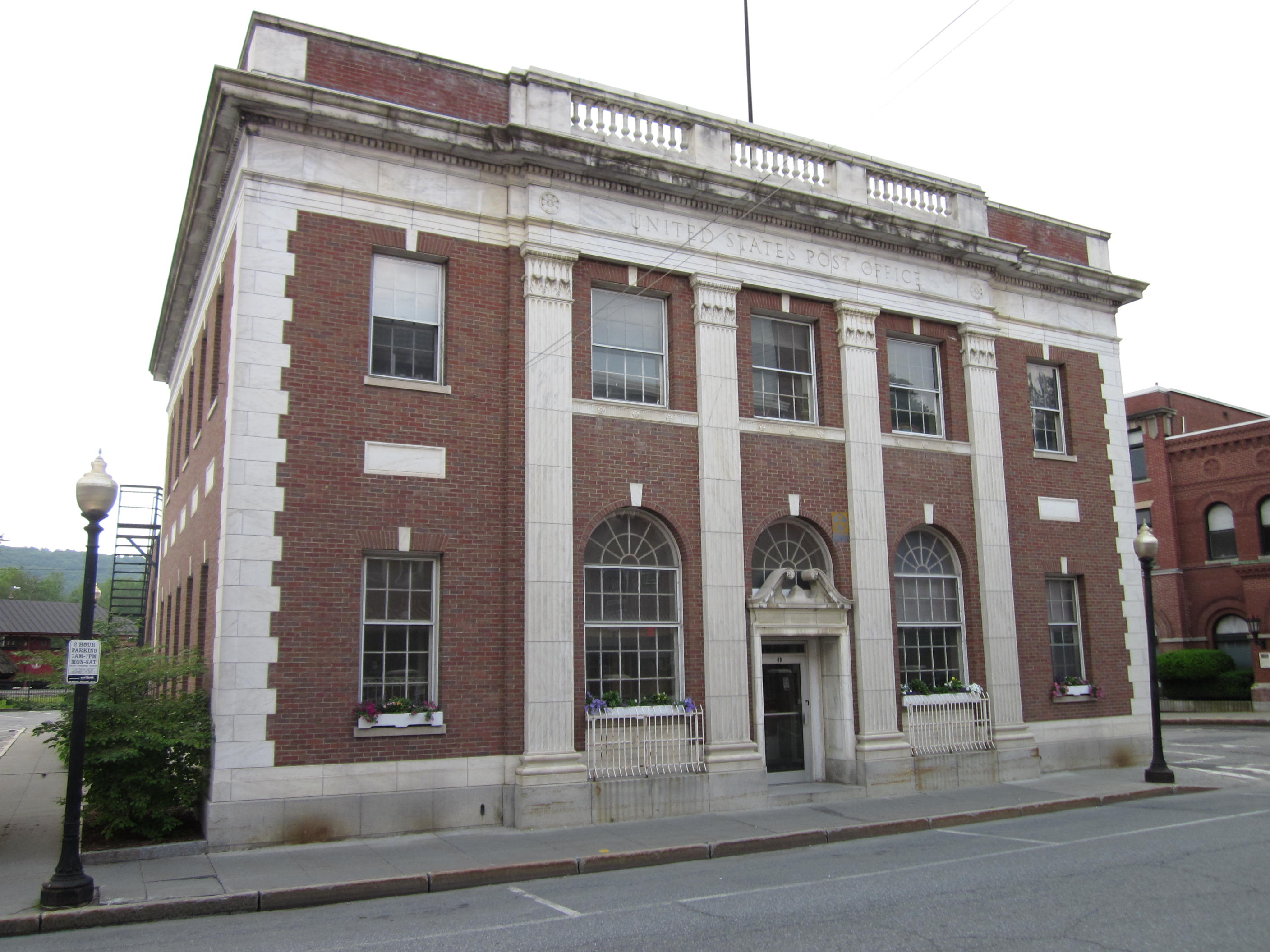 Former Post office Building in White River Junction Vermont. Future Home of the Center for Cartoon Studies